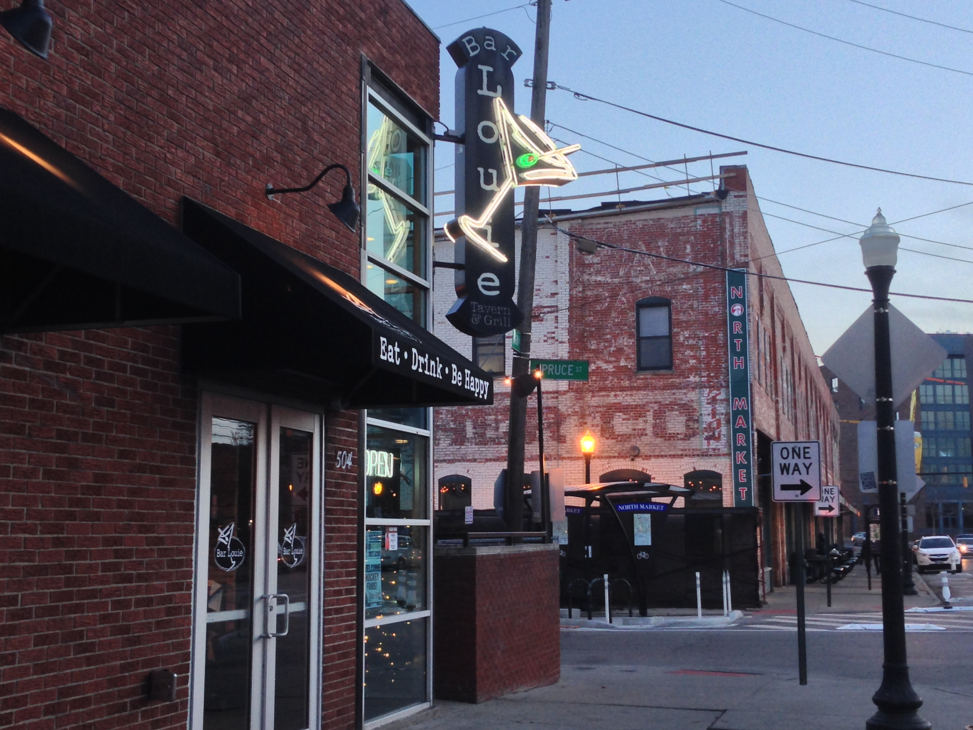 Bar Louie at Night